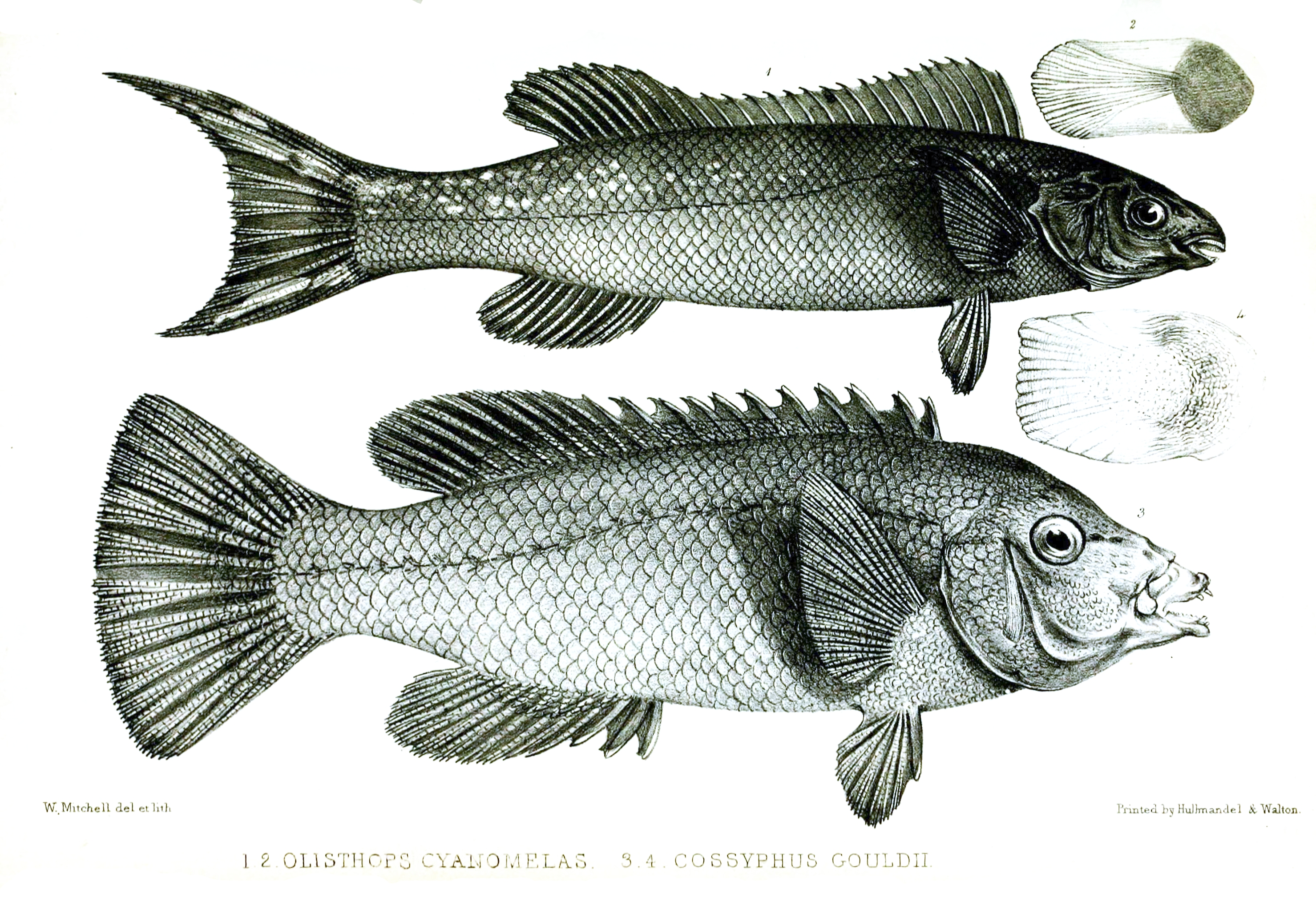 Herring Cale, from lateral and scale detail (above); Western Blue Groper, from lateral and scale detail (below)